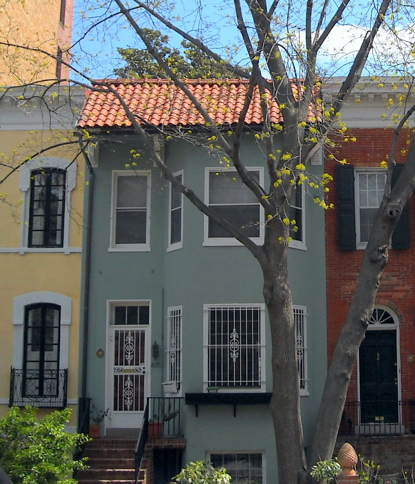 The former residence of Sinclair Lewis located at 1639 19th Street NW in the Dupont Circle neighborhood of Washington, D.C. Constructed in 1876, the building is a contributing property to the Dupont Circle Historic District. In addition to Lewis, notable residents have included Costa Rican ambassador Fernando E. Piza and American Hellenic Educational Progressive Association president Vasilios I. Chebithes.